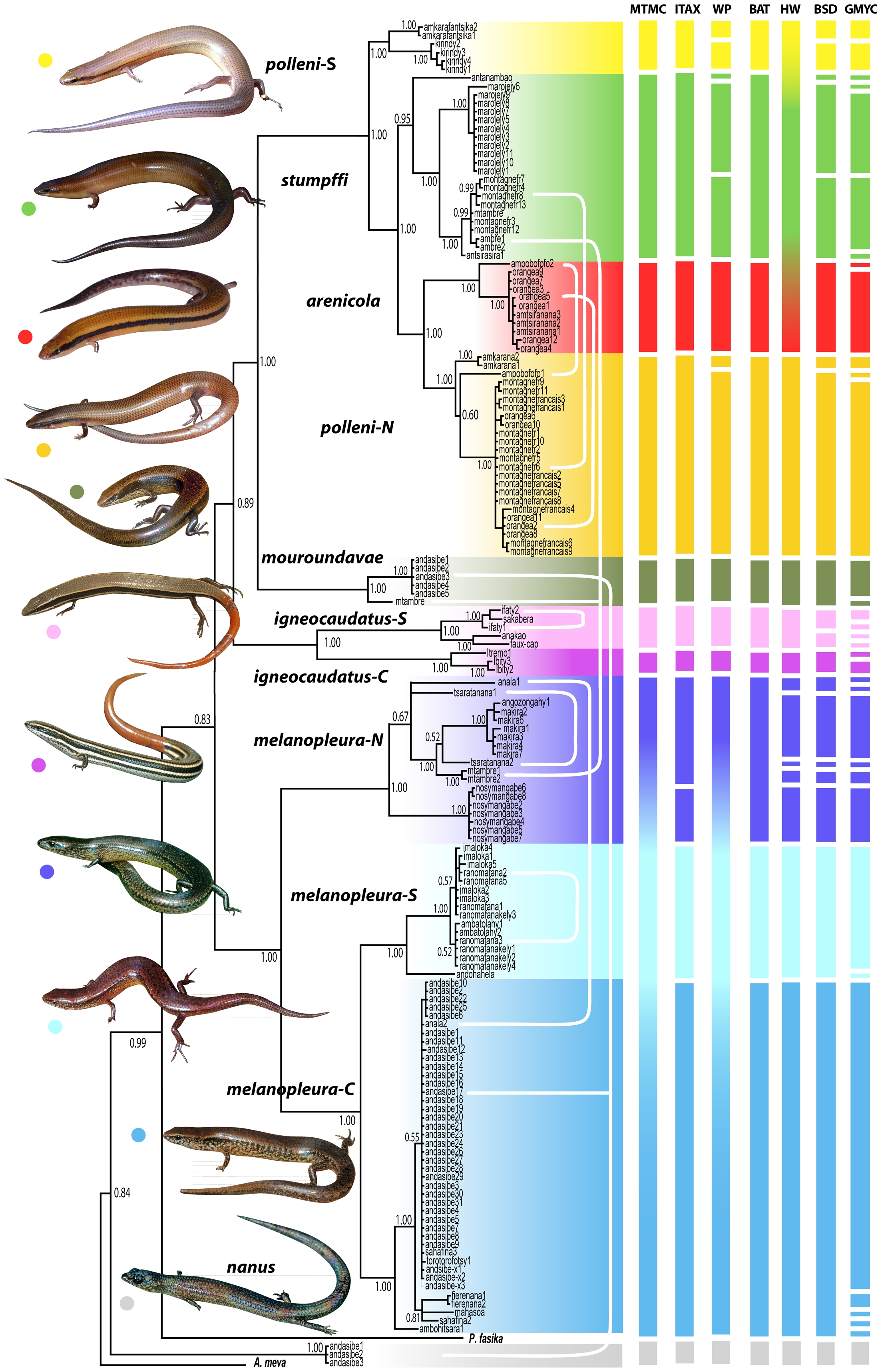 Summary of the taxonomies proposed for the genus Madascincus using different species delimitation approaches. show more Correspondences with clades are shown on the mtDNA gene tree (BI analysis of concatenated ND1and 16S sequences, posterior probabilities indicated for each node). The seven vertical multicolored bars represent alternative taxonomies, respectively supported by the Mitochondrial Tree – Morphological character Congruence (MTMC), Integrative Taxonomy (ITAX), Wiens-Penkrot (WP), Bayesian Assignment Test (BAT), Haploweb (HW), Bayesian Species Delimitation (BSD) and Generalized Mixed Yule-Coalescent (GMYC) approaches for species delimitation, each segment of these bars representing distinct species according to the respective approach. White lines connecting different samples in the phylogeny represent instances of sympatry between different clades.